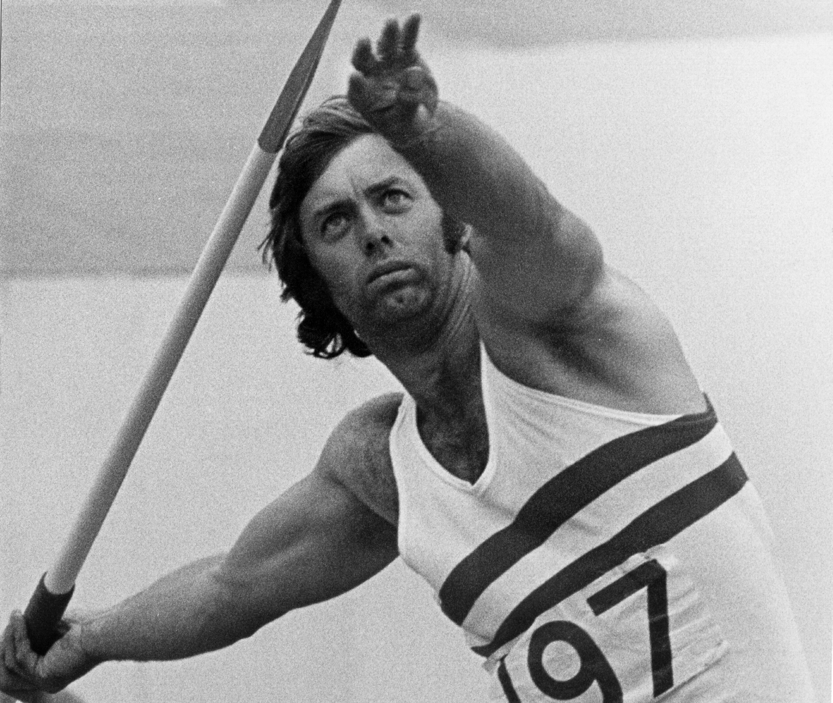 Dave Travis in the European Championship Semi-final 1975